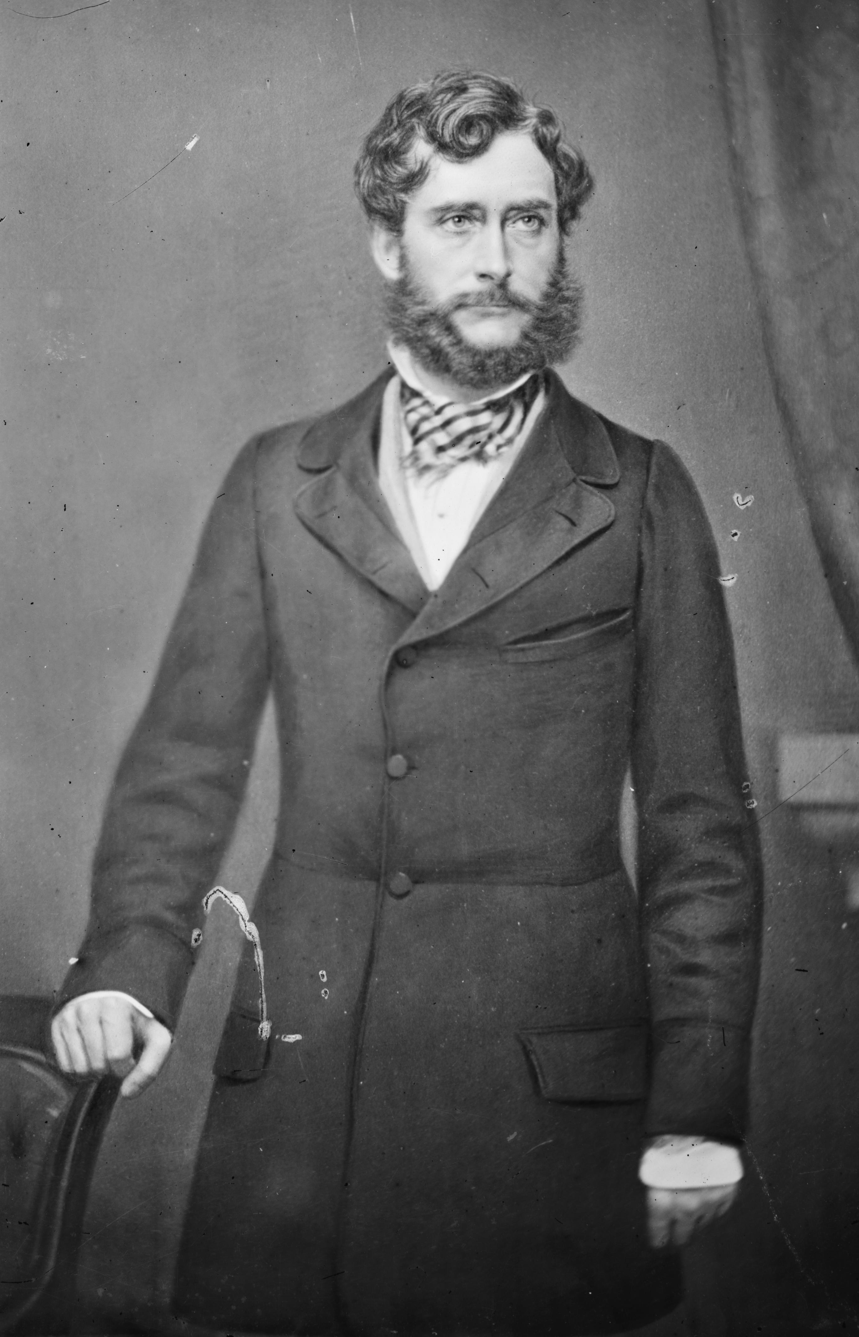 John Lothrop Motley. Library of Congress description: "John Lathrop Motley".